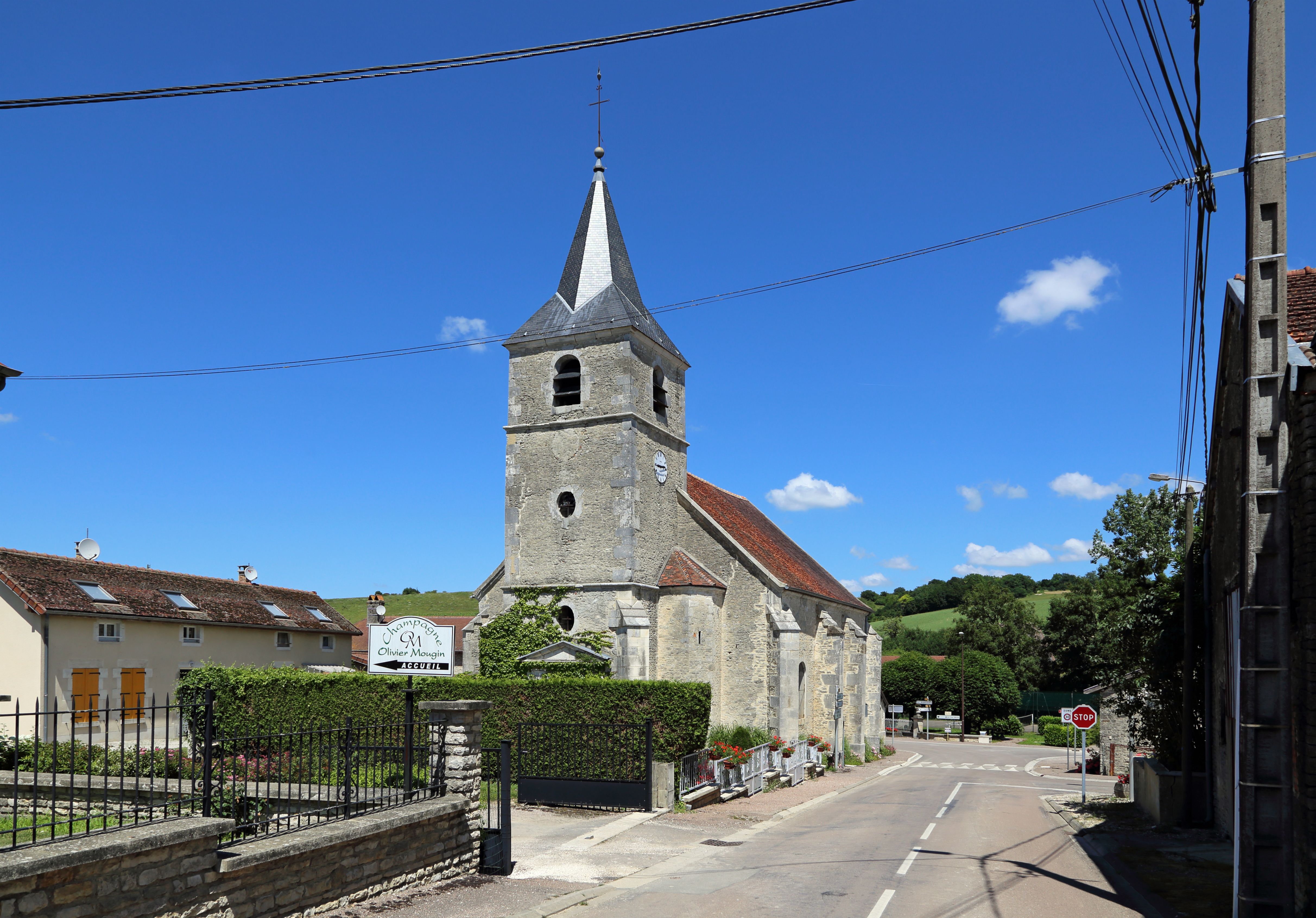 Saulcy (Aube department, France): the village and Saint Brice church